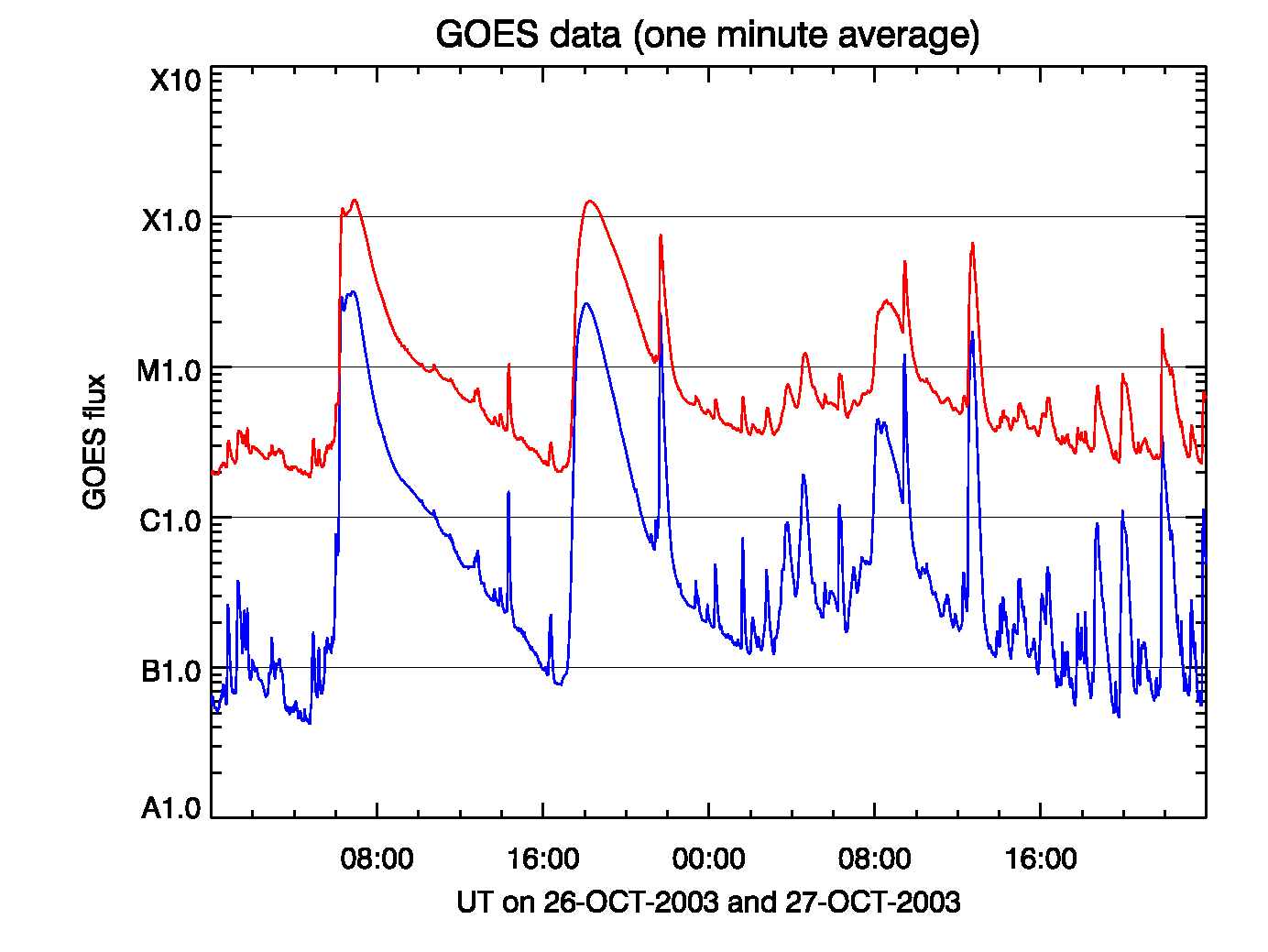 Plot made by me with public domain data.